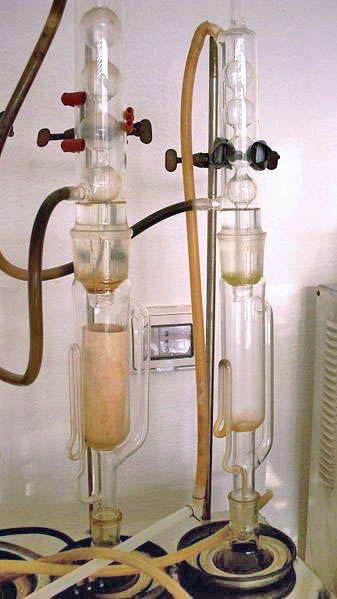 Soxhlet extractors